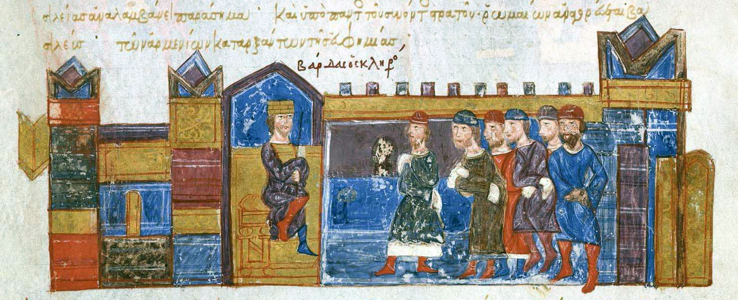 The rebel Bardas Skleros receives officials